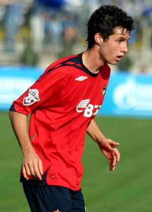 Ratinho playing against Zenit in Russian Premier League